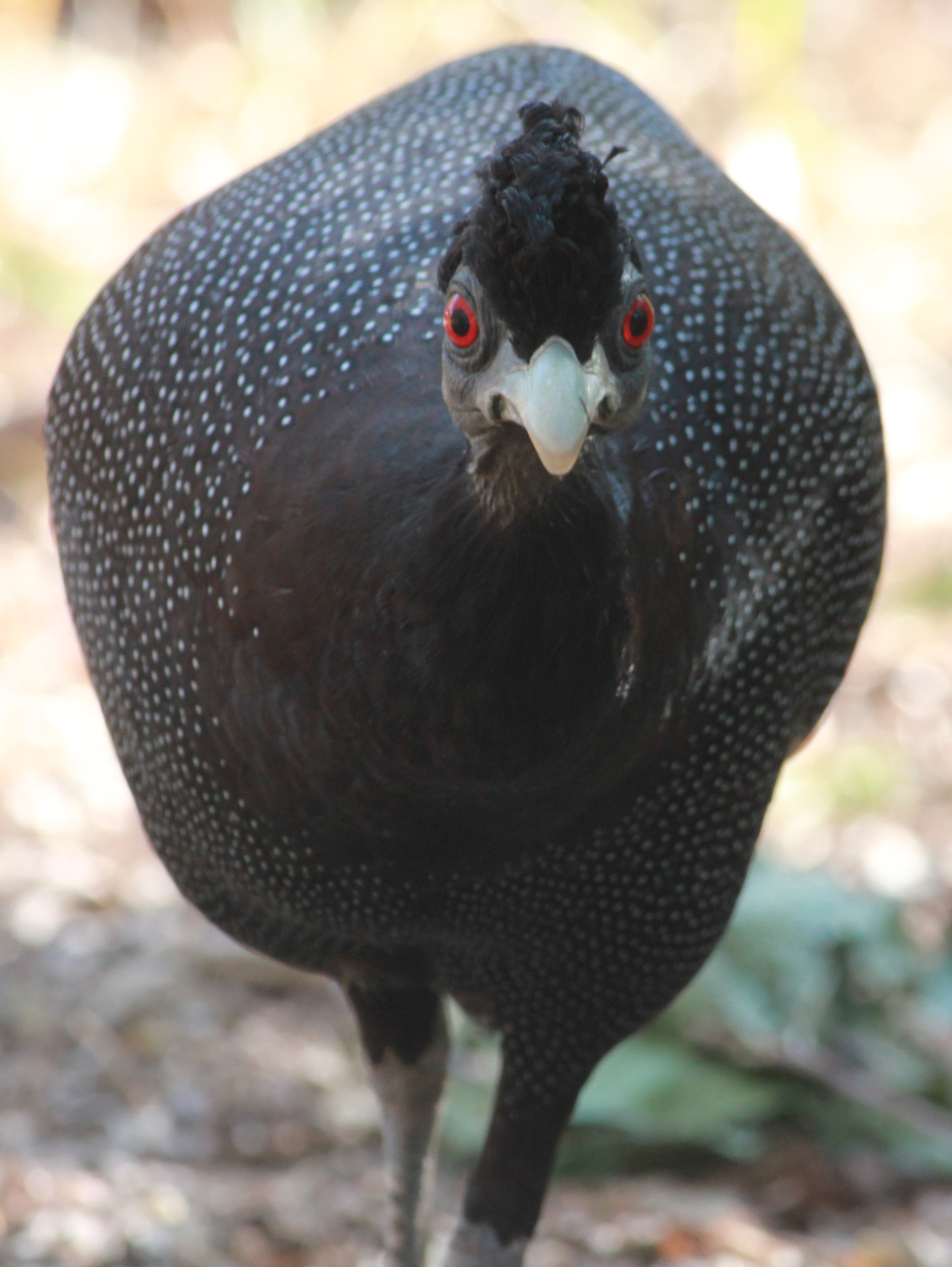 Crested Guineafowl (Guttera edouardi edouardi), Soutpansberg, South Africa